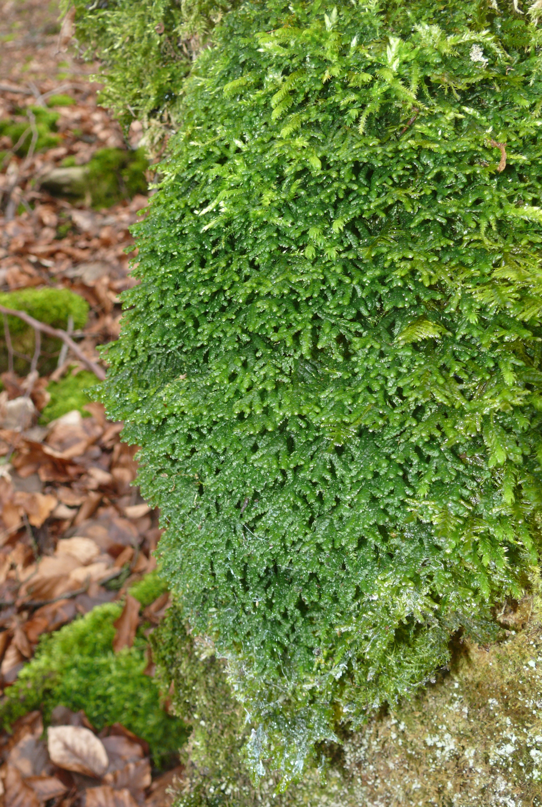 Porella platyphylla, Hohenlohe, Germany